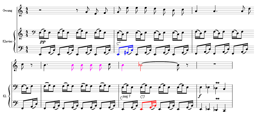 Bar 12 - 17 of the song "Kälbermarsch" from "Schweyk im Zweiten Weltkrieg" by Bertolt Brecht